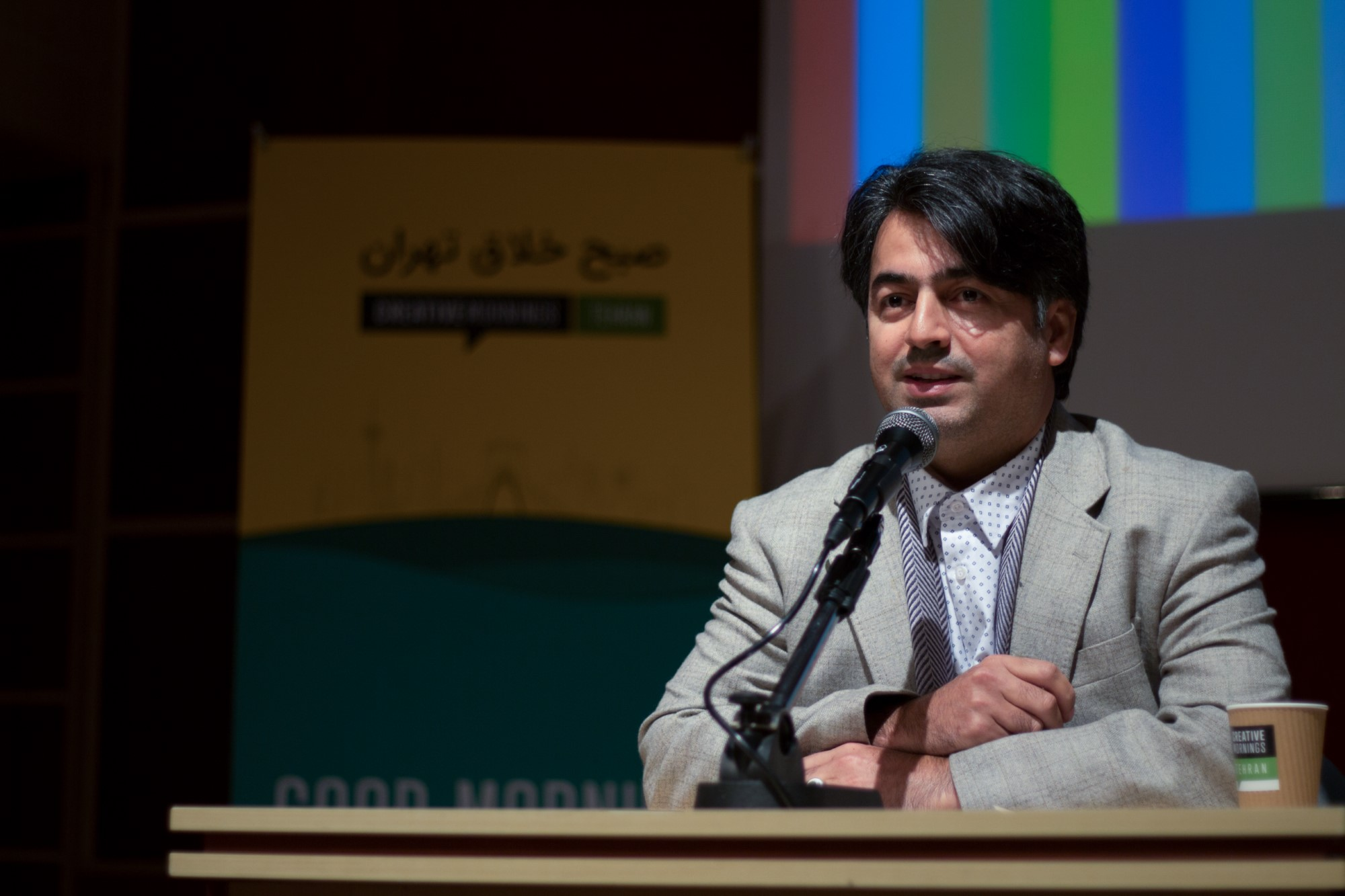 Parvaz Homay at 8th Event of CreativeMornings/Tehran